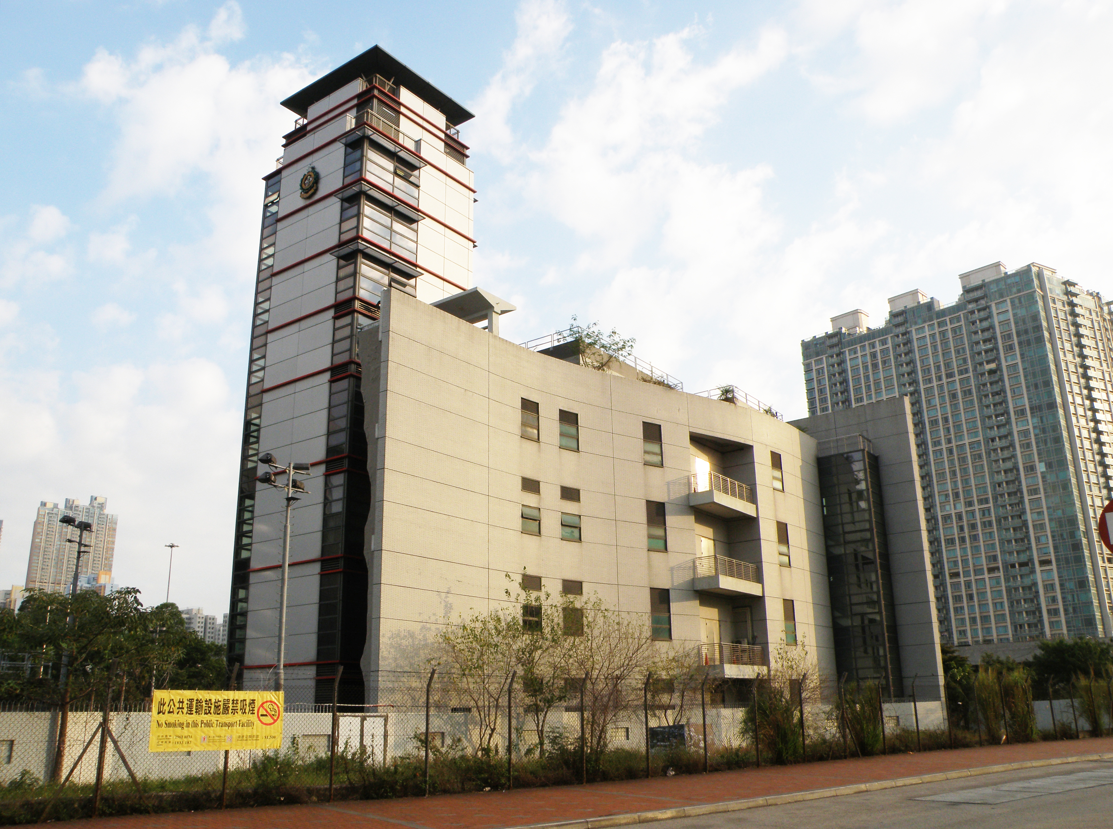 Fire Services Department West Kowloon Rescue Training Centre in West Kowloon, Hong Kong.